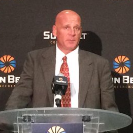 Doug Martin, head coach of the New Mexico State Aggies football team, at the 2015 Sun Belt Conference Media Day in the Mercedes-Benz Superdome in New Orleans.